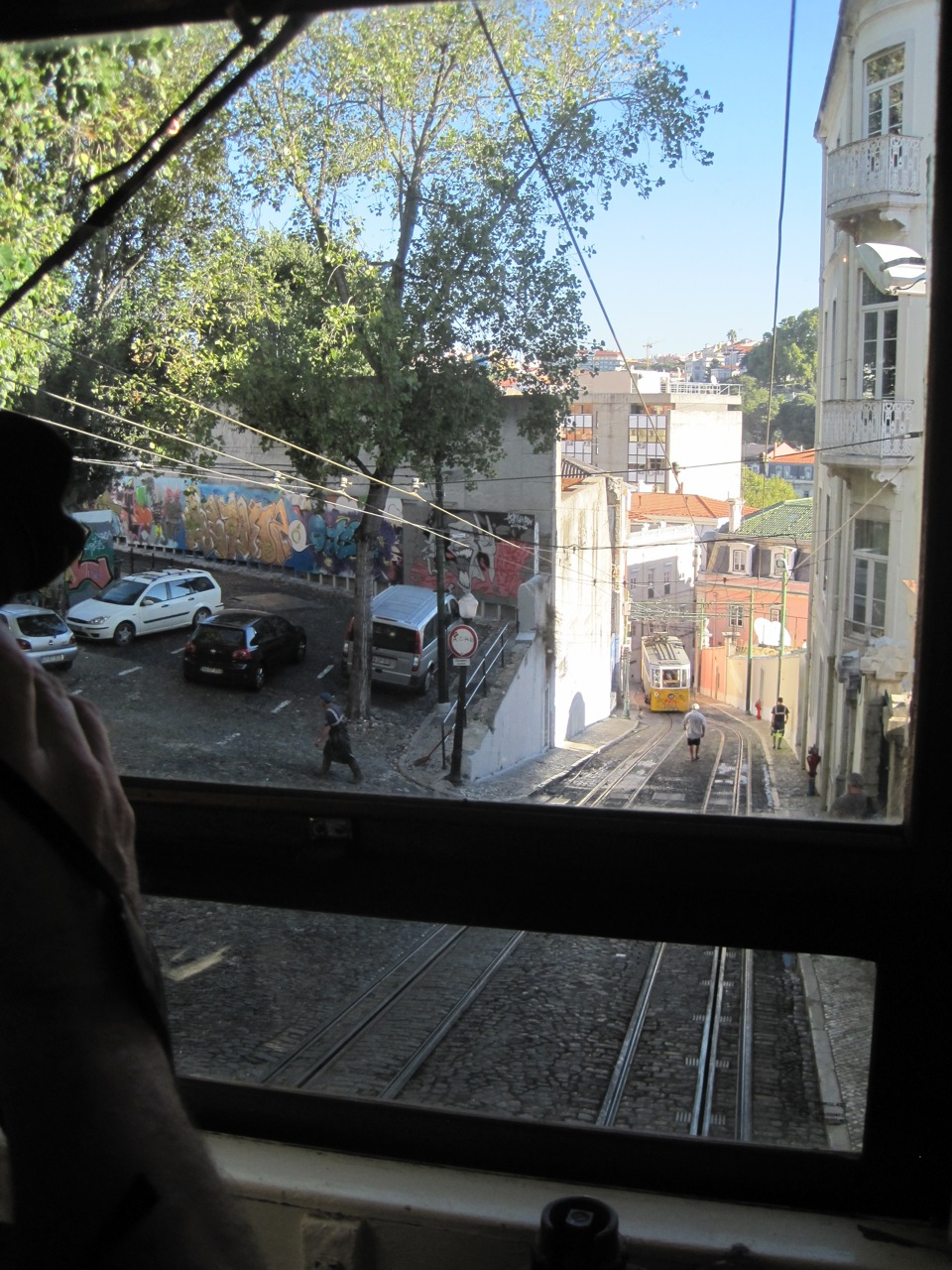 One of Lisbon's funiculars.